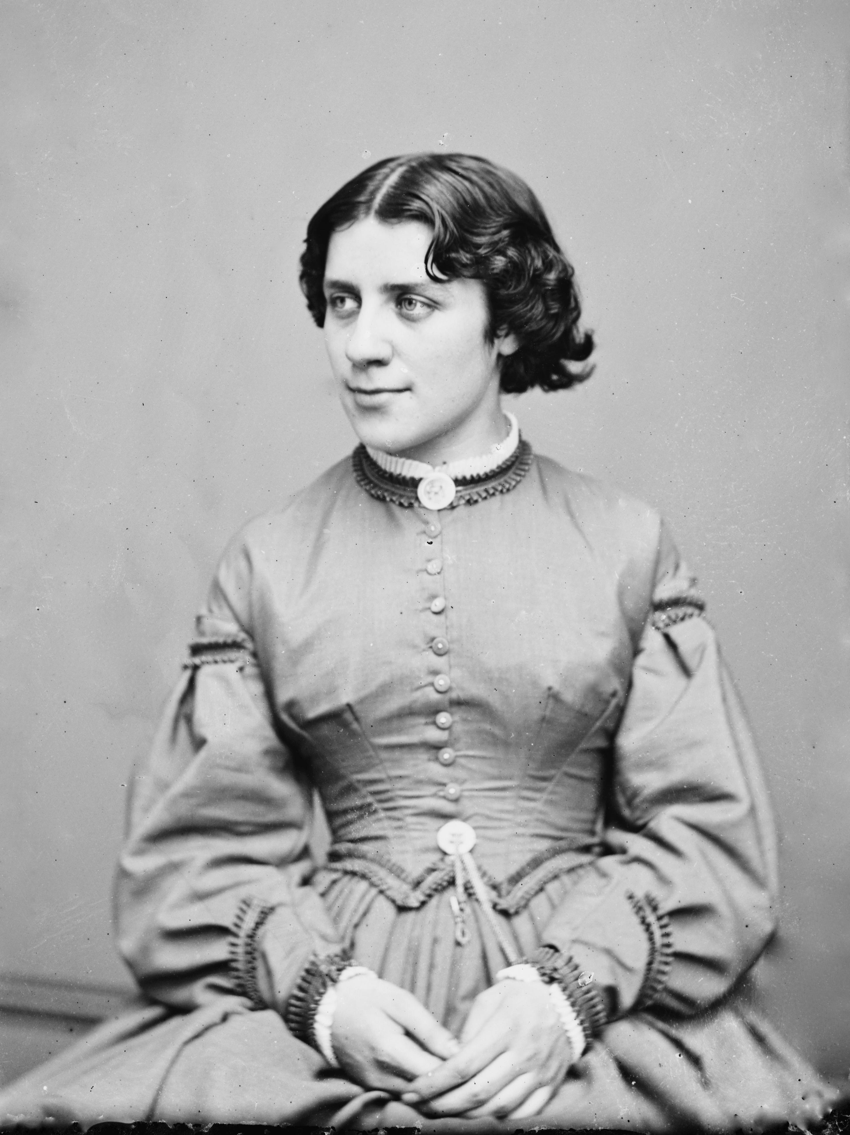 Anna Elizabeth Dickinson. Library of Congress description: "Anna E. Dickinson" - circa 1860s hair fashion